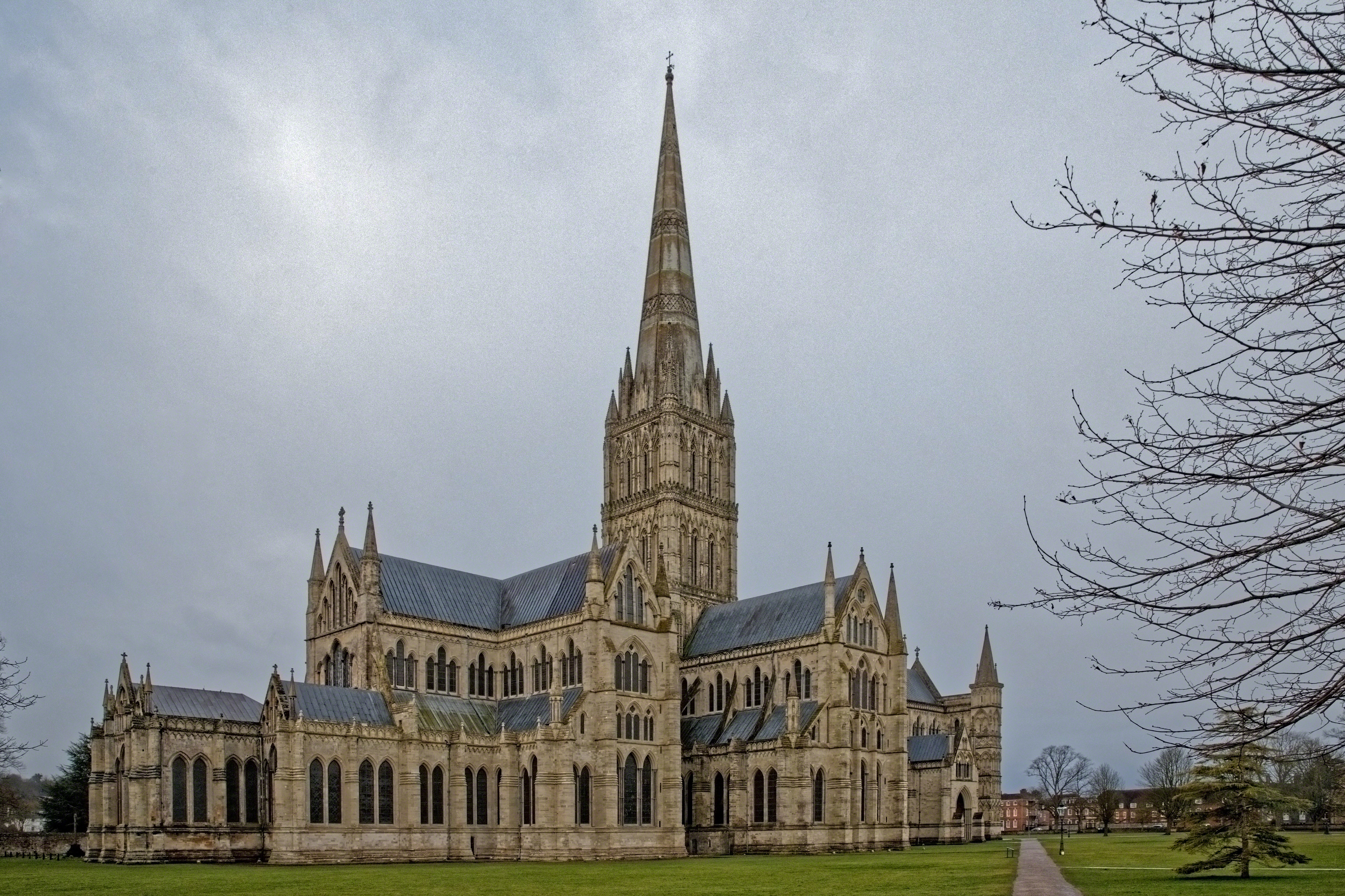 Salisbury Cathedral - Gothic mix from the East